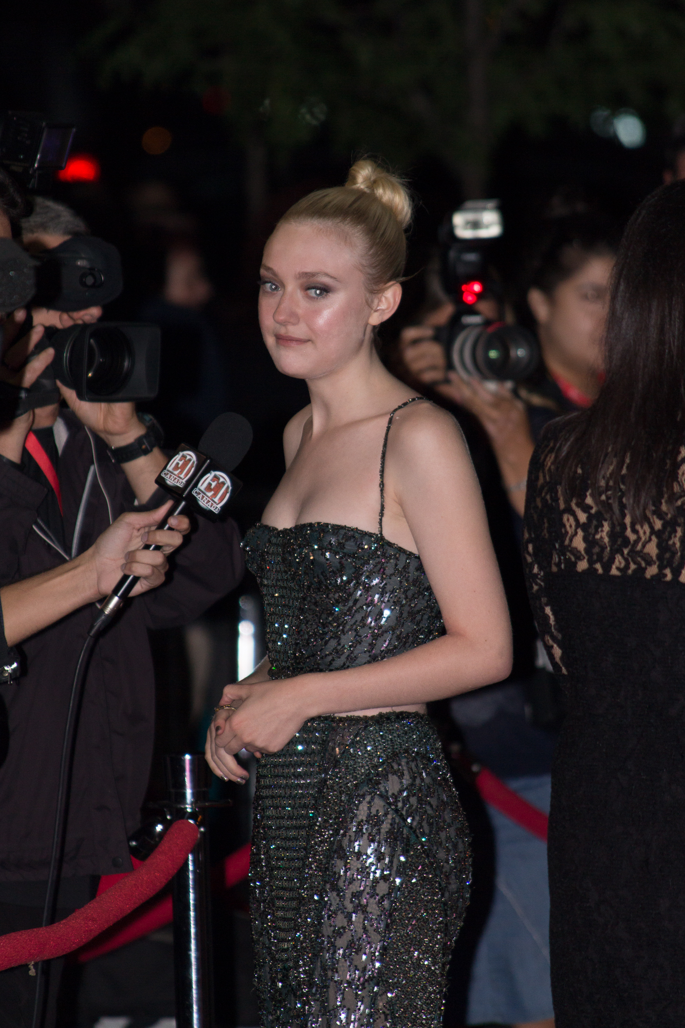 Actress Dakota Fanning at the Toronto International Film Festival, September 2013